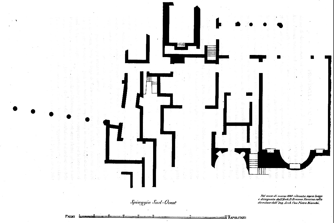 Paln of Villa Sora